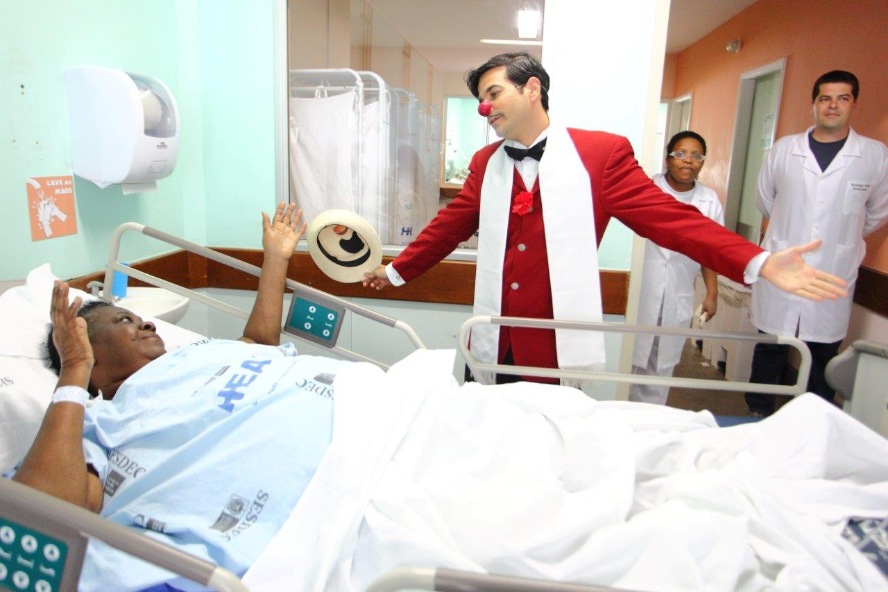 Therapeutic clowning with people with dementia